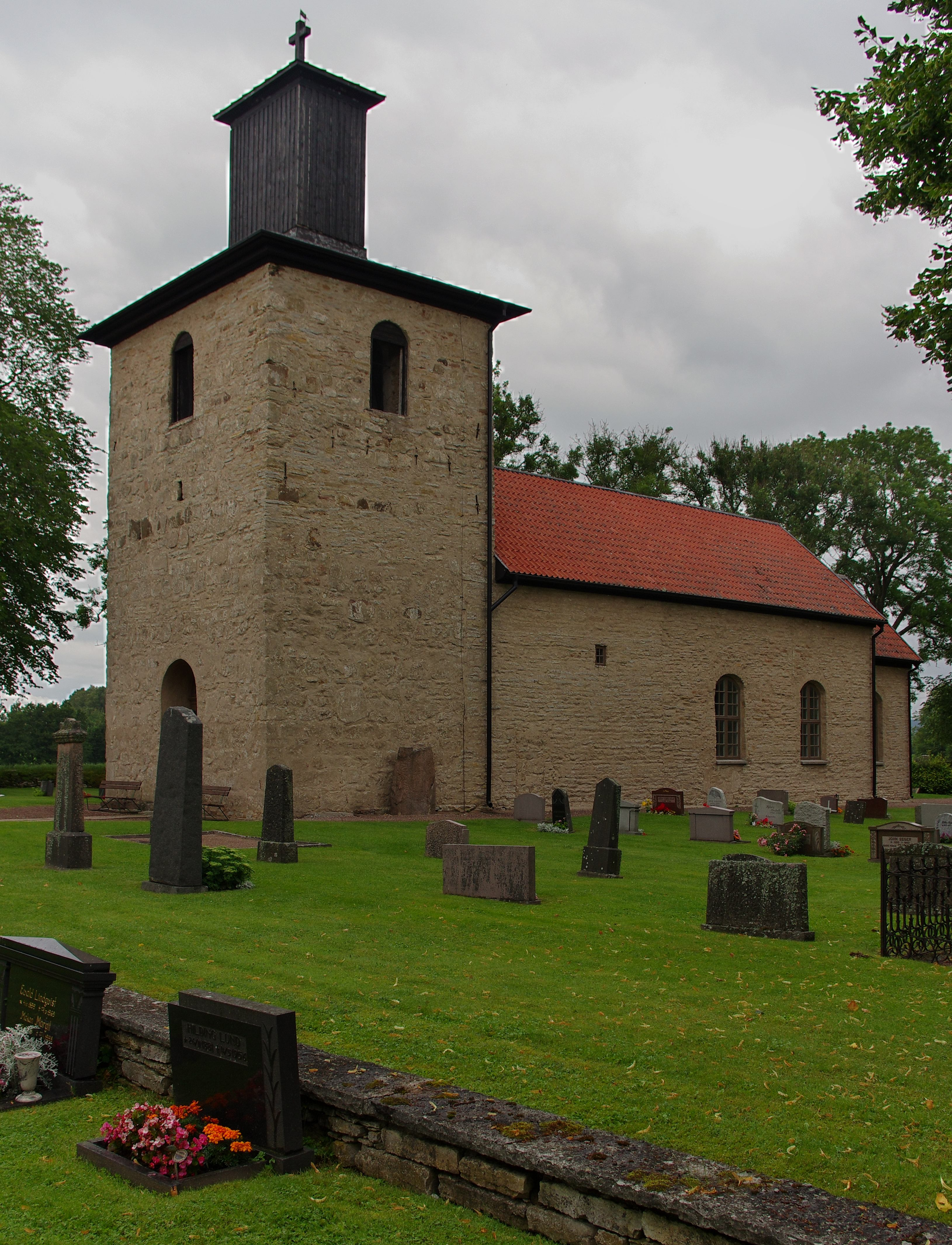 Norra Lundby kyrka (swedish:Norra Lundby church) in Norra Lundby parish, Valle hundred, Västergötland and Skara municipality, Västragötaland county, Sweden.